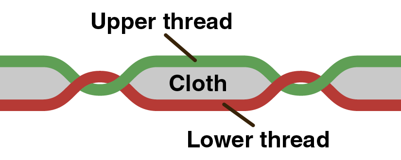 Simple illustration of a lockstitch.